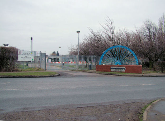 Willowgarth High School. The semi-circle wheel is from the old mine workings.